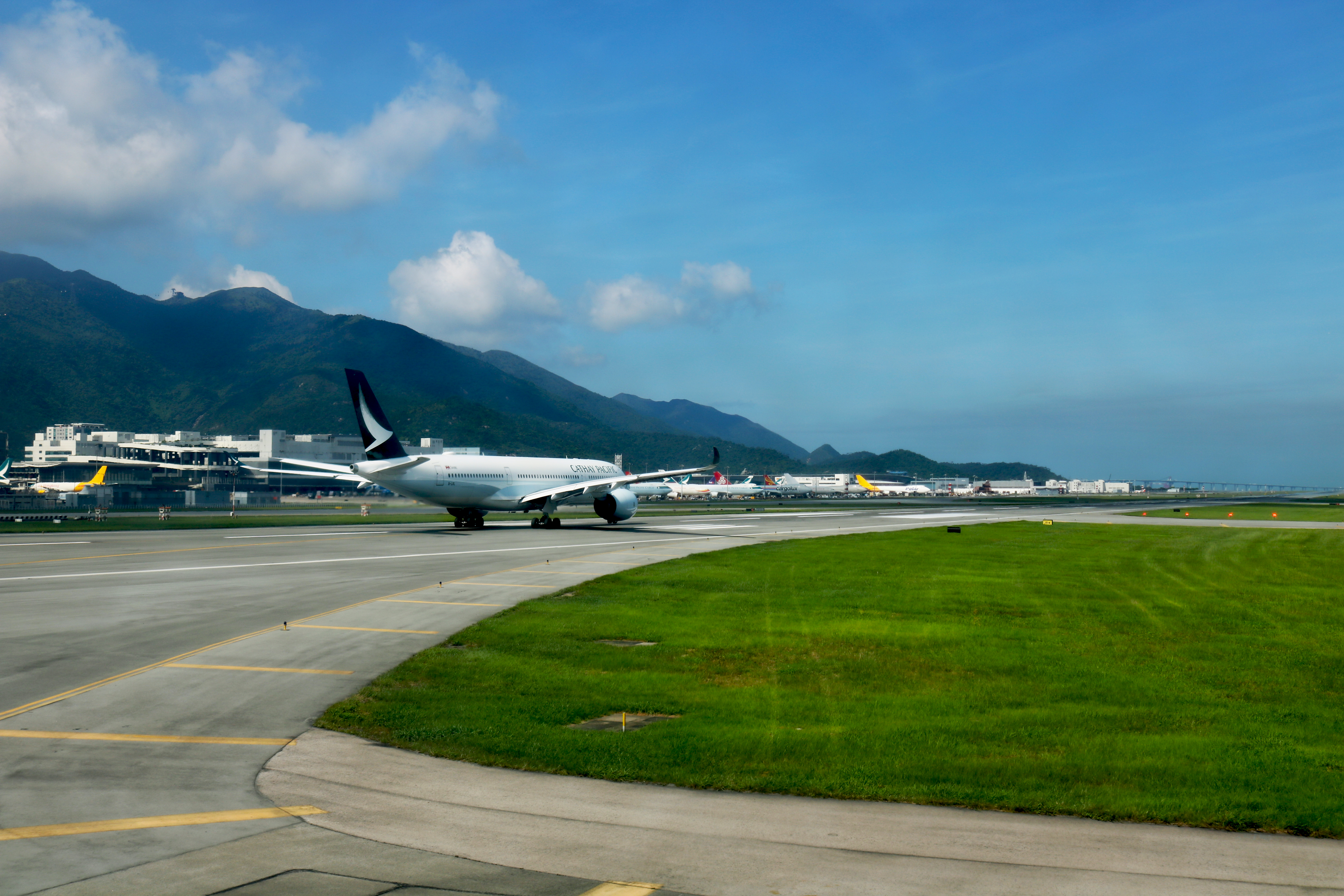 A350 Takeoff on 25L